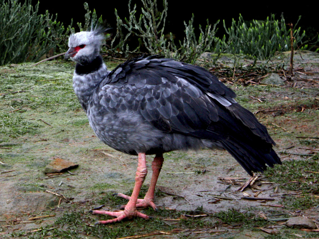 A Southern Screamer at Gramado Zoo, Gramado, Rio Grande do Sul, Brazil.